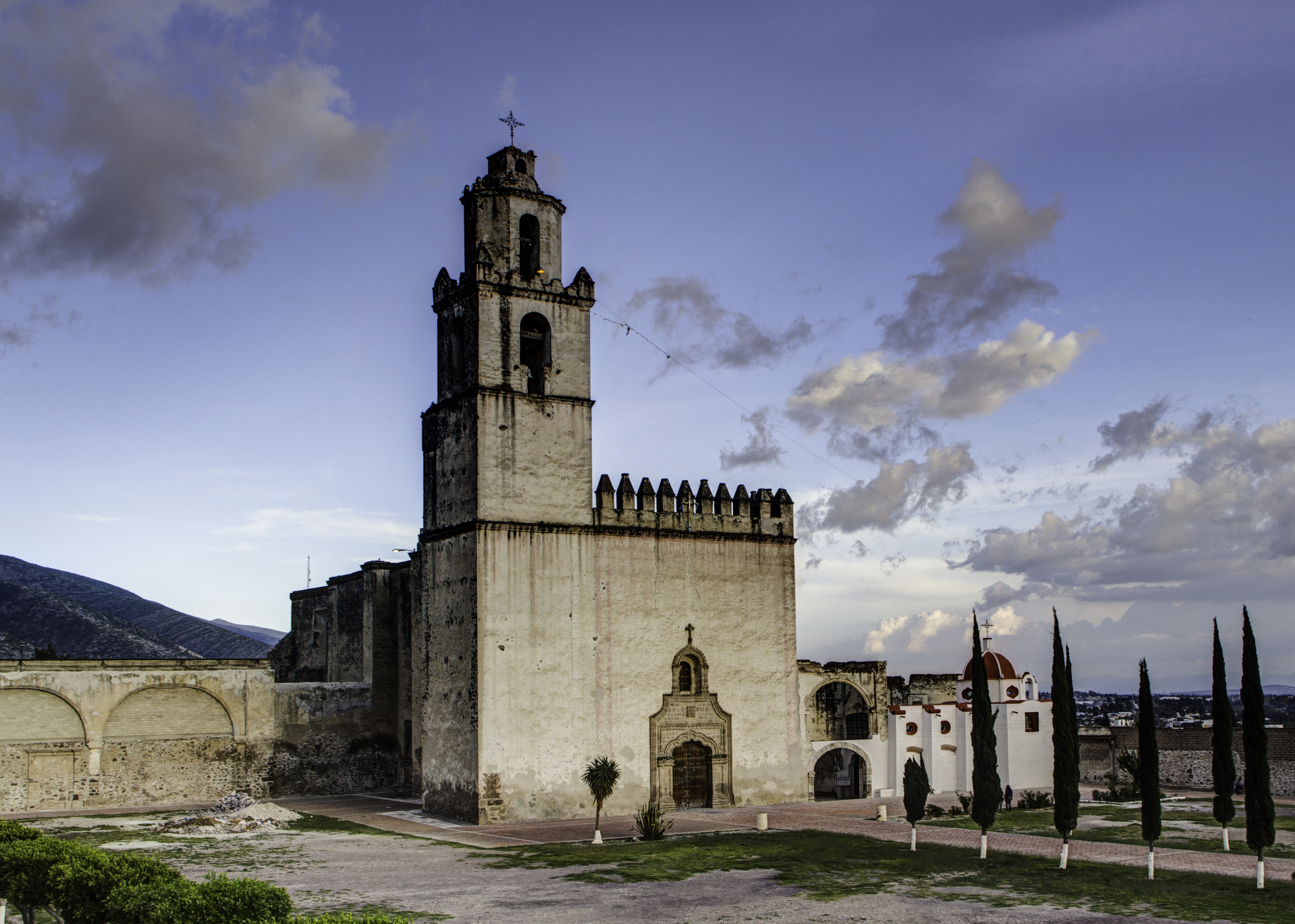 Franciscan Convent in Tecamachalco, Puebla